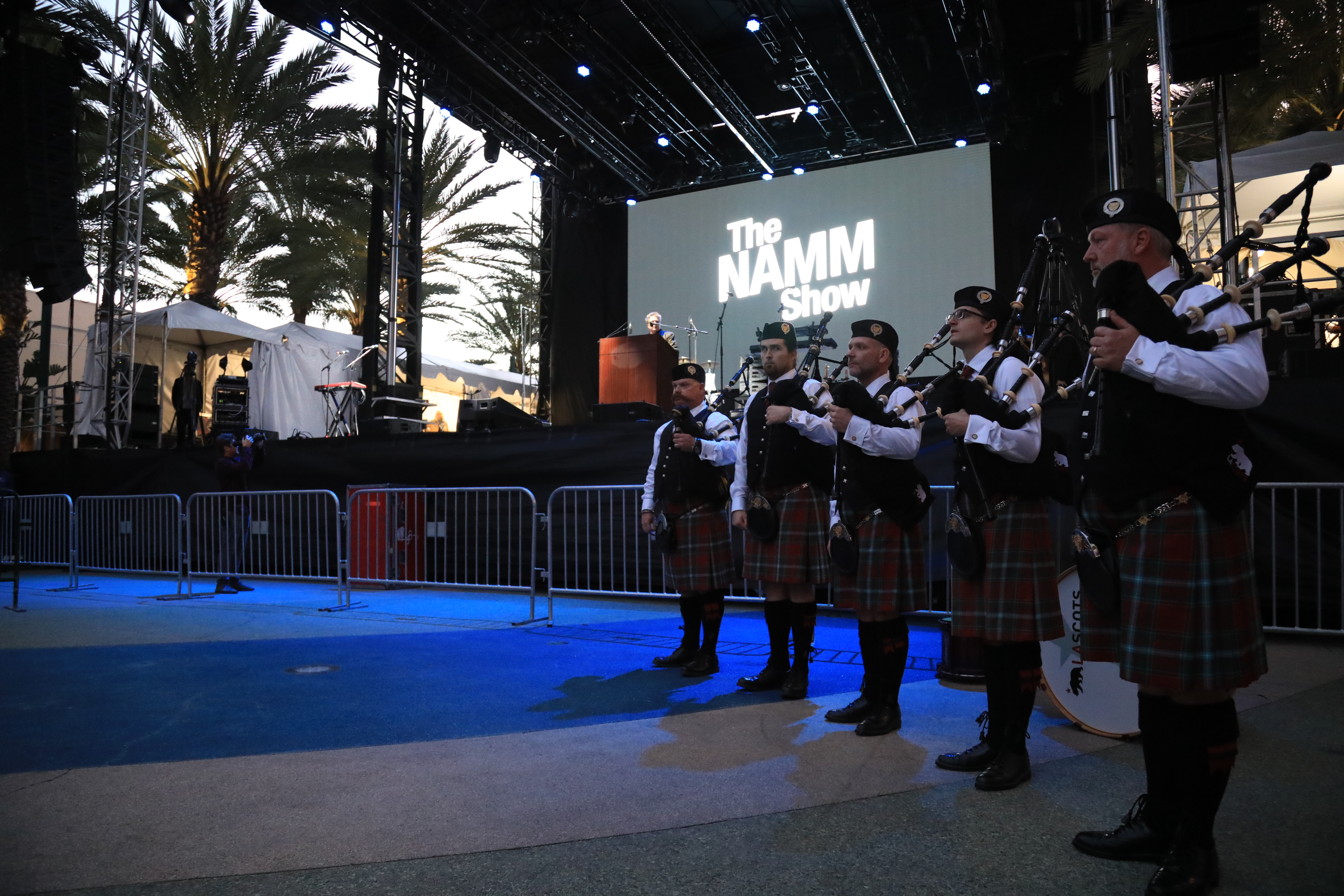 NAMM Annual Industry Tribute